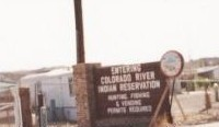 Colorado River Indian Reservation